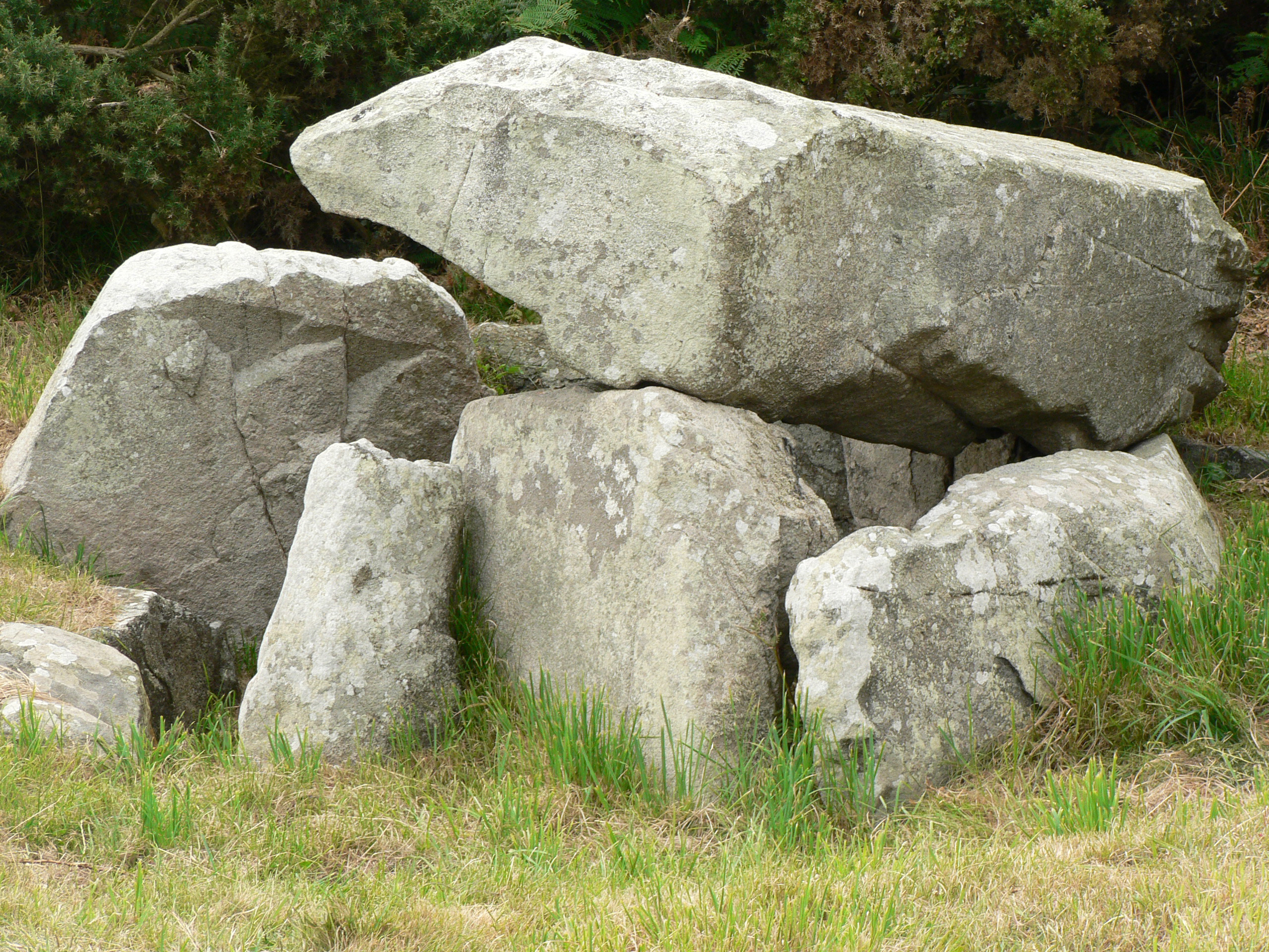 La Platte Mare, a Cist-in-circle Neolithic or Early Bronze Age burial chamber on L'Ancresse Common, Guernsey, Channel islands. 2500-1800 BC. First excavated 1837-1840. re-excavated in 1981.